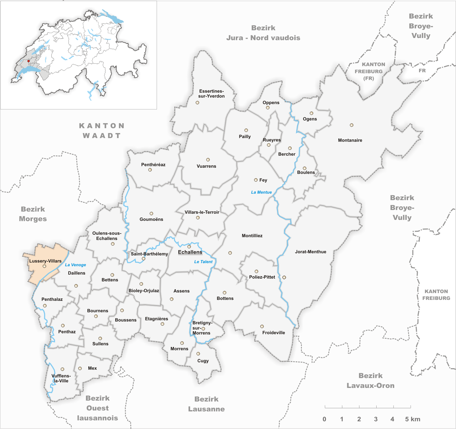 Municipality Lussery-Villars